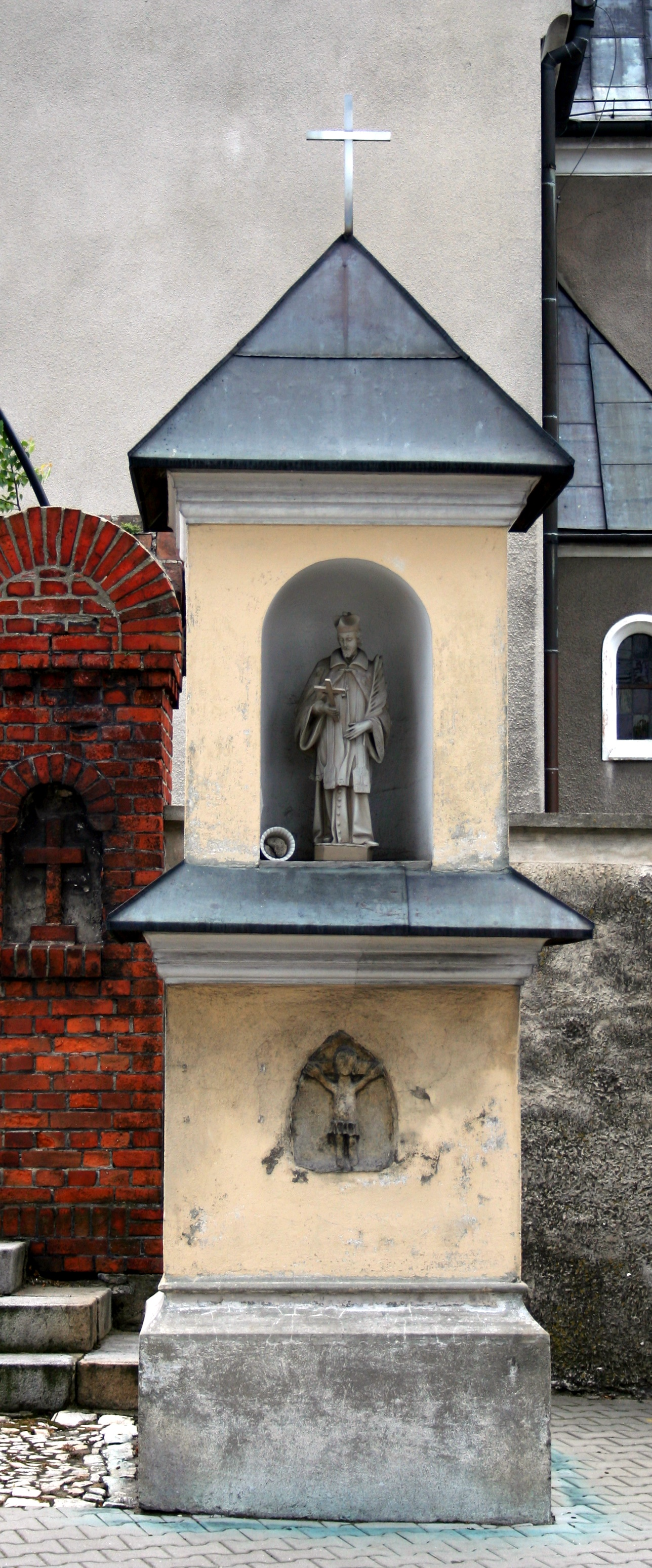 Schrine, Wielowieś, Poland